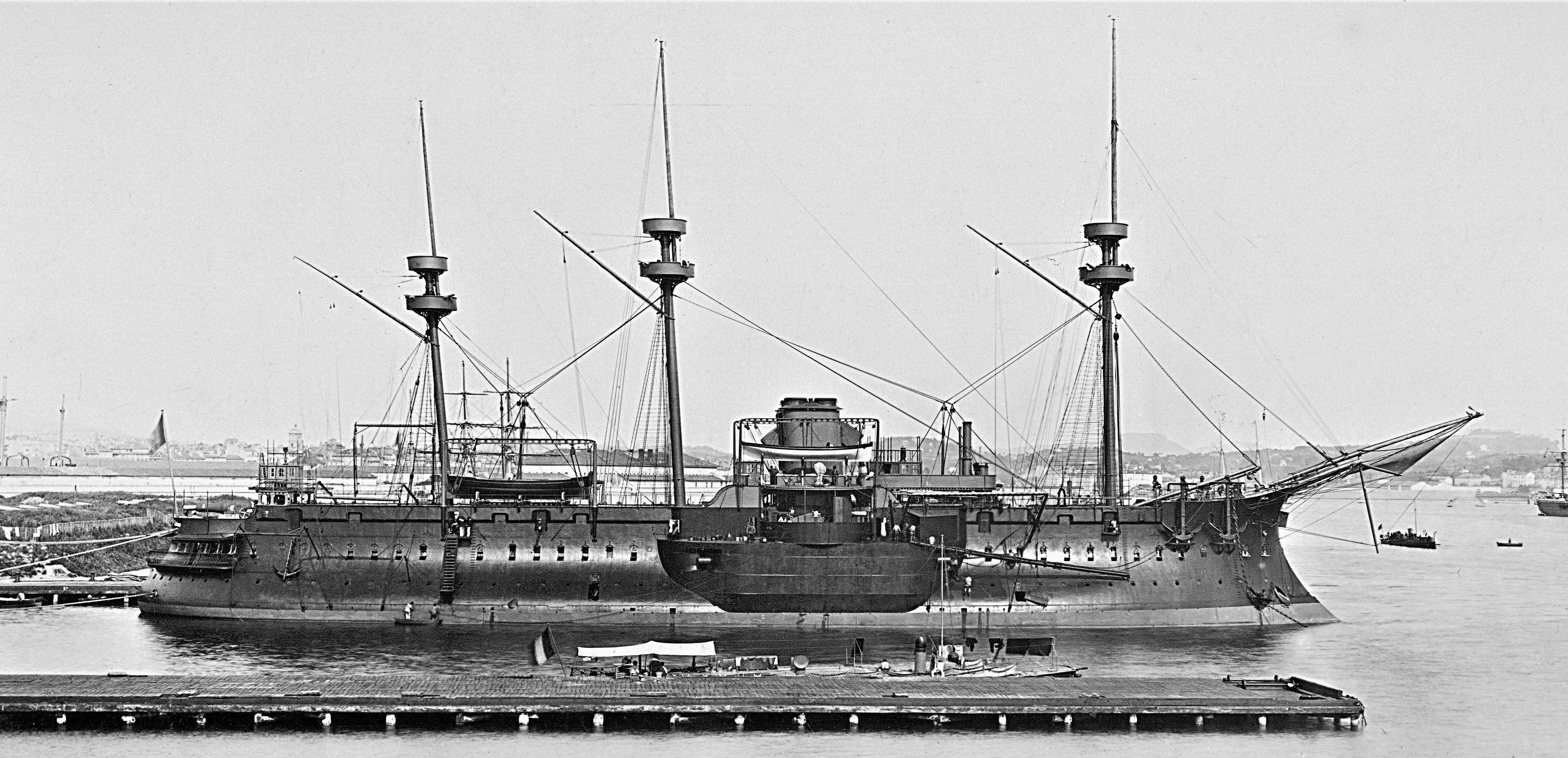 French ironclad Redoutable